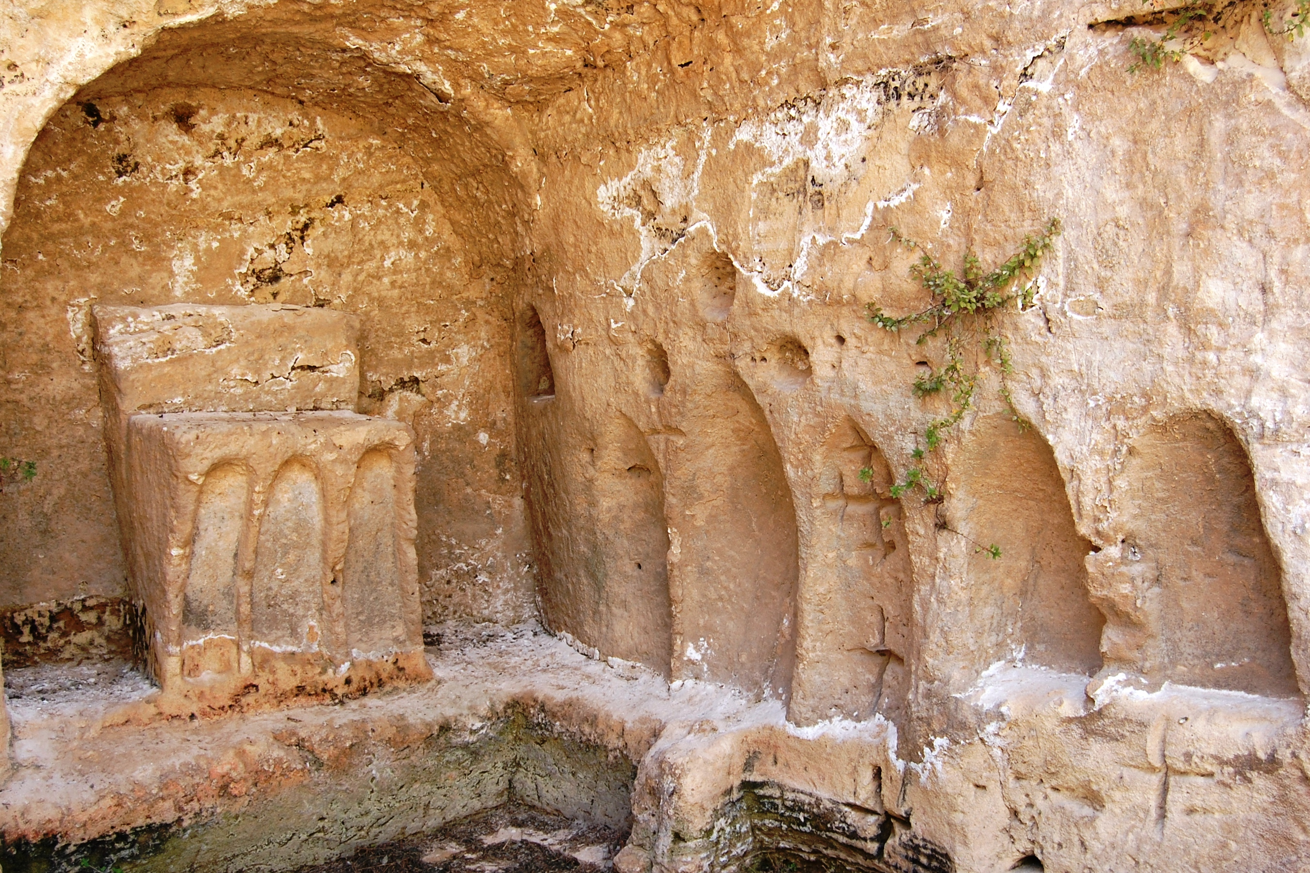 Holy Spirit Church